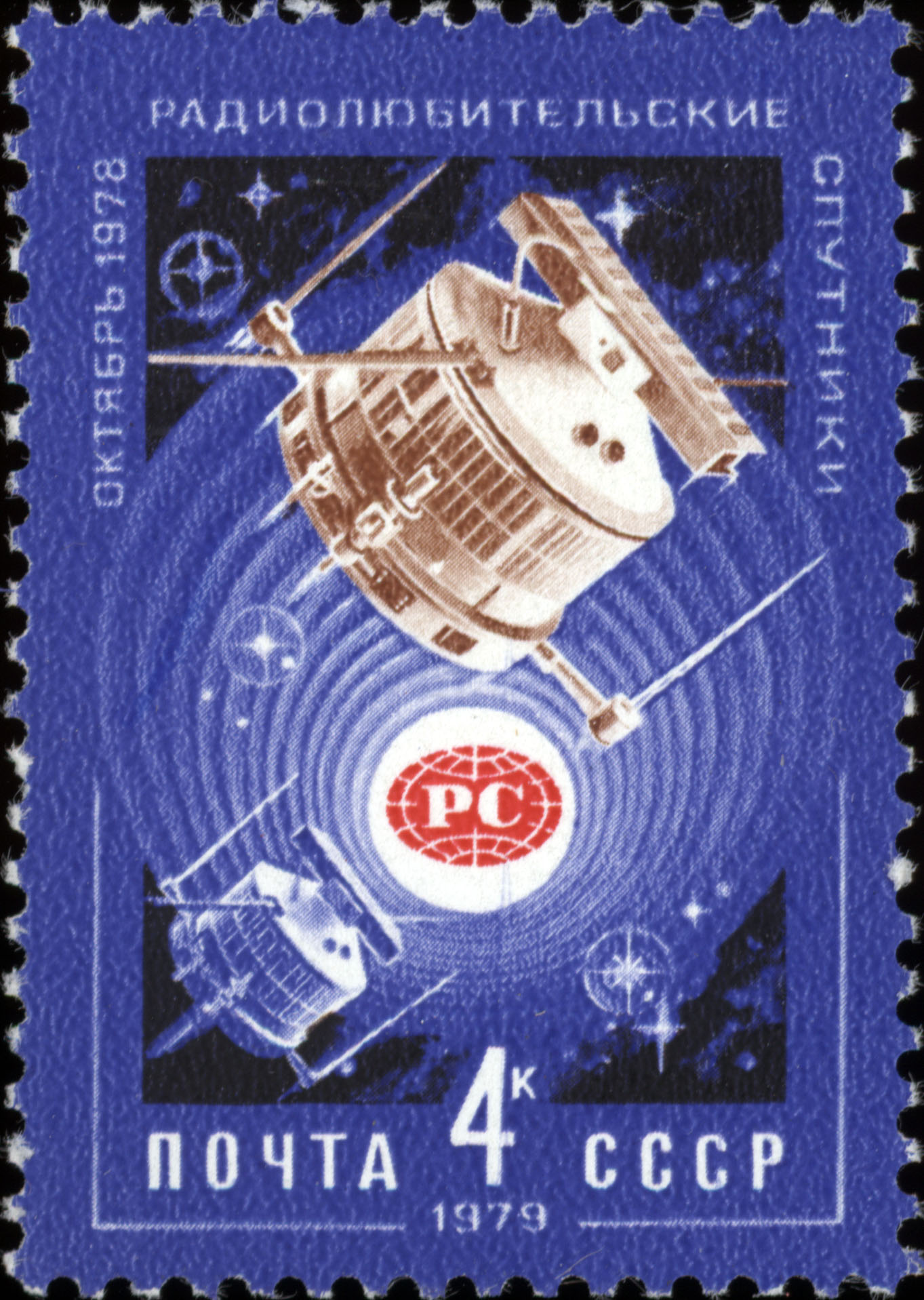 USSR postal stamp dedicated to Amateur Radio Satellites, viz, Radio-1 and Radio-2 satellites